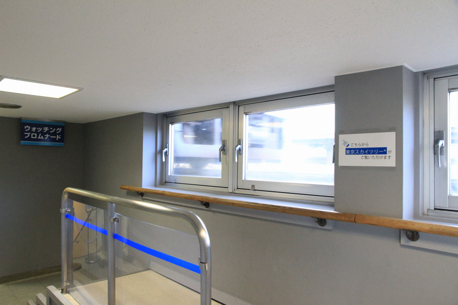 Watching promenade Tobu museum Tokyo, Japan